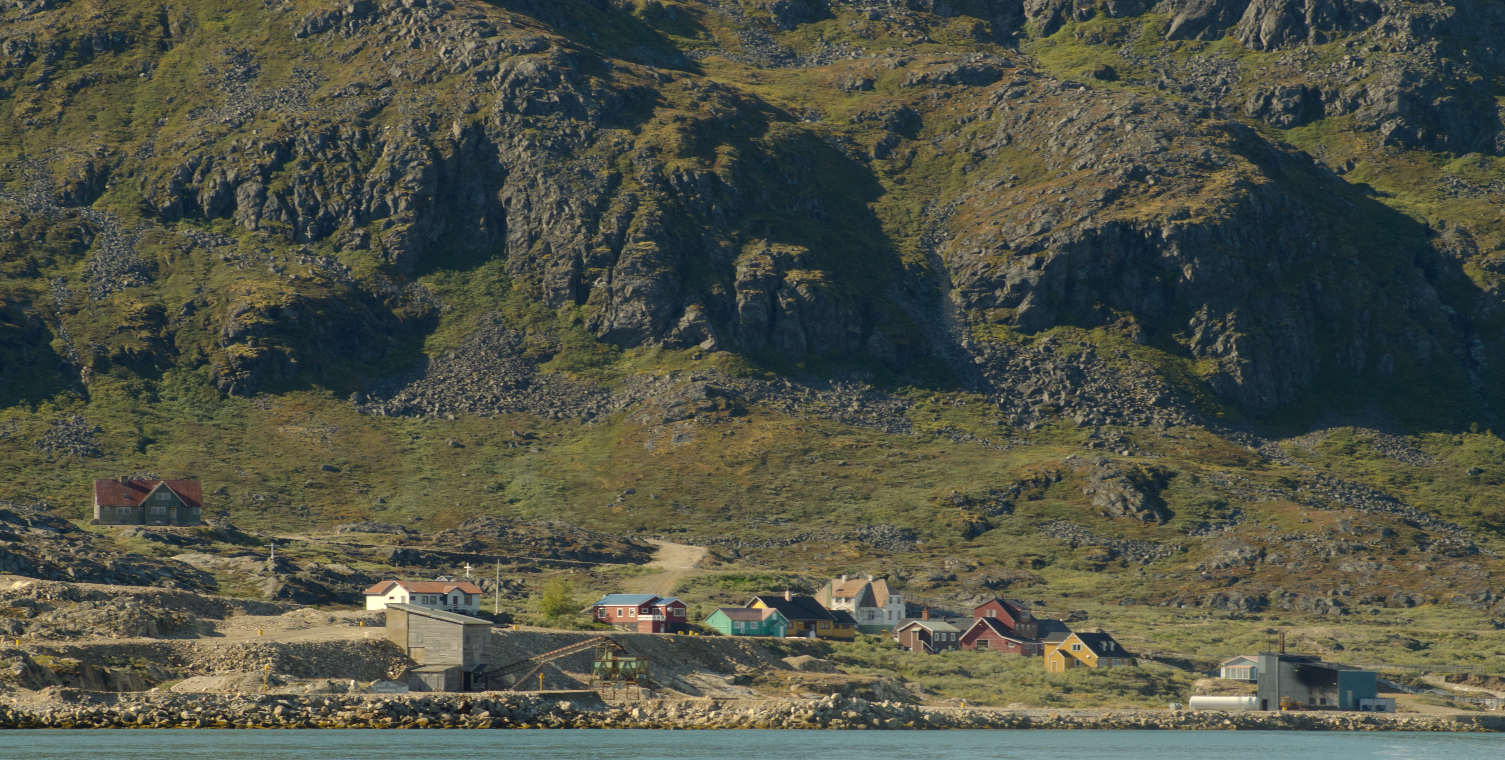 Ivituut in 2011